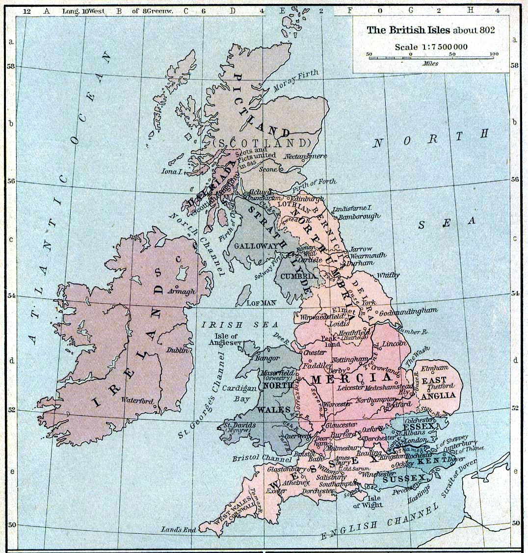 Map of the British Isles claiming to be circa 802AD.